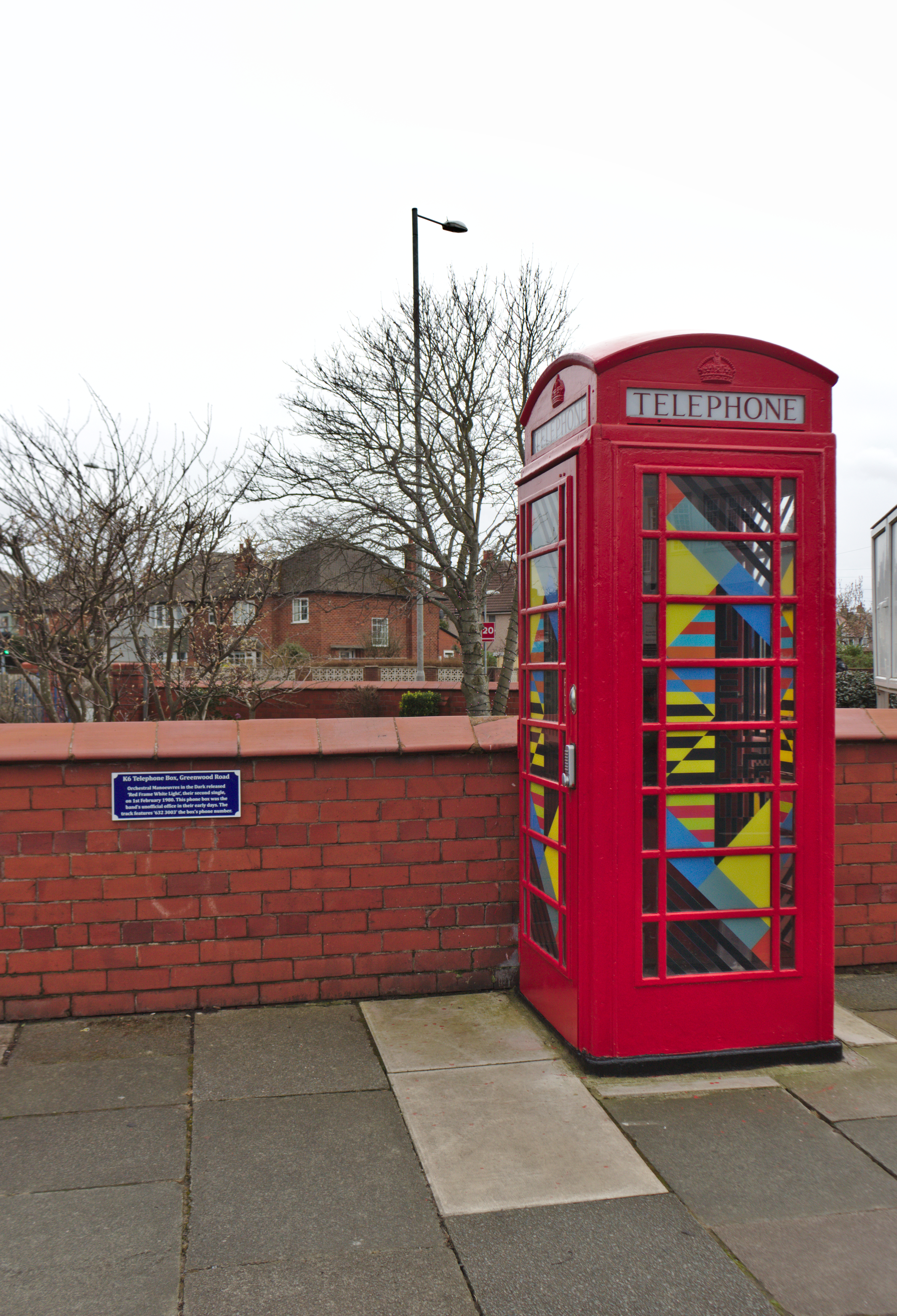 Red telephone featured in Orchestral Manoevres in the Dark's second single "Red Frame/White Light", in 2019 celebrated with a plaque.